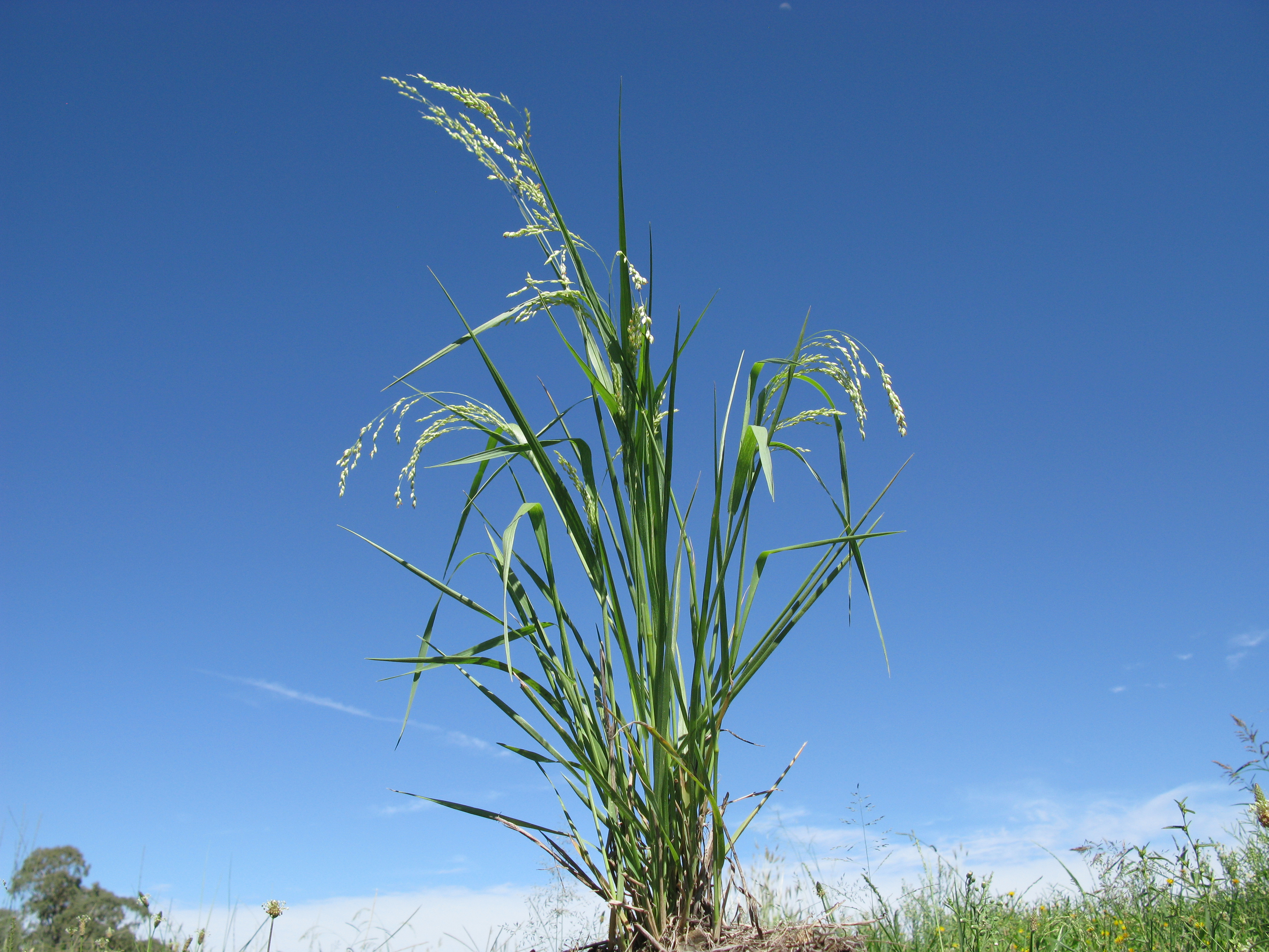 Native warm-season perennial, tufted C4 grass; stems grow to 80 cm tall. Leaves are 10-20 cm long and have a pale midrib and sparse tubercle-based hairs (i.e. with small wart-like outgrowths at their base) along their margins. Flowerheads are panicles; 10-30 cm long, pale green and often drooping (giving it a rice-like appearance). Spikelets are 2-flowered, 3-4.5 mm long and relatively densely arranged; lower glume is about 30% of the spikelet’s length; lower lemma is sterile; upper lemma is smooth, shiny and about half the spikelet’s length. Flowers in summer and autumn. Found on clay loam and clay soils subject to flooding (e.g. alluvial soils, riverbanks and roadside drains) in open woodlands and grasslands; most common on the North West Slopes and northern half of the adjacent Plains. Native biodiversity. Tolerates salinity and waterlogging. Usually not an abundant species, but can become so after good summer rains. More common in ungrazed areas or lightly to intermittently grazed areas; declines under high grazing pressure. Not highly productive, but its leaves are soft and readily eaten by livestock.